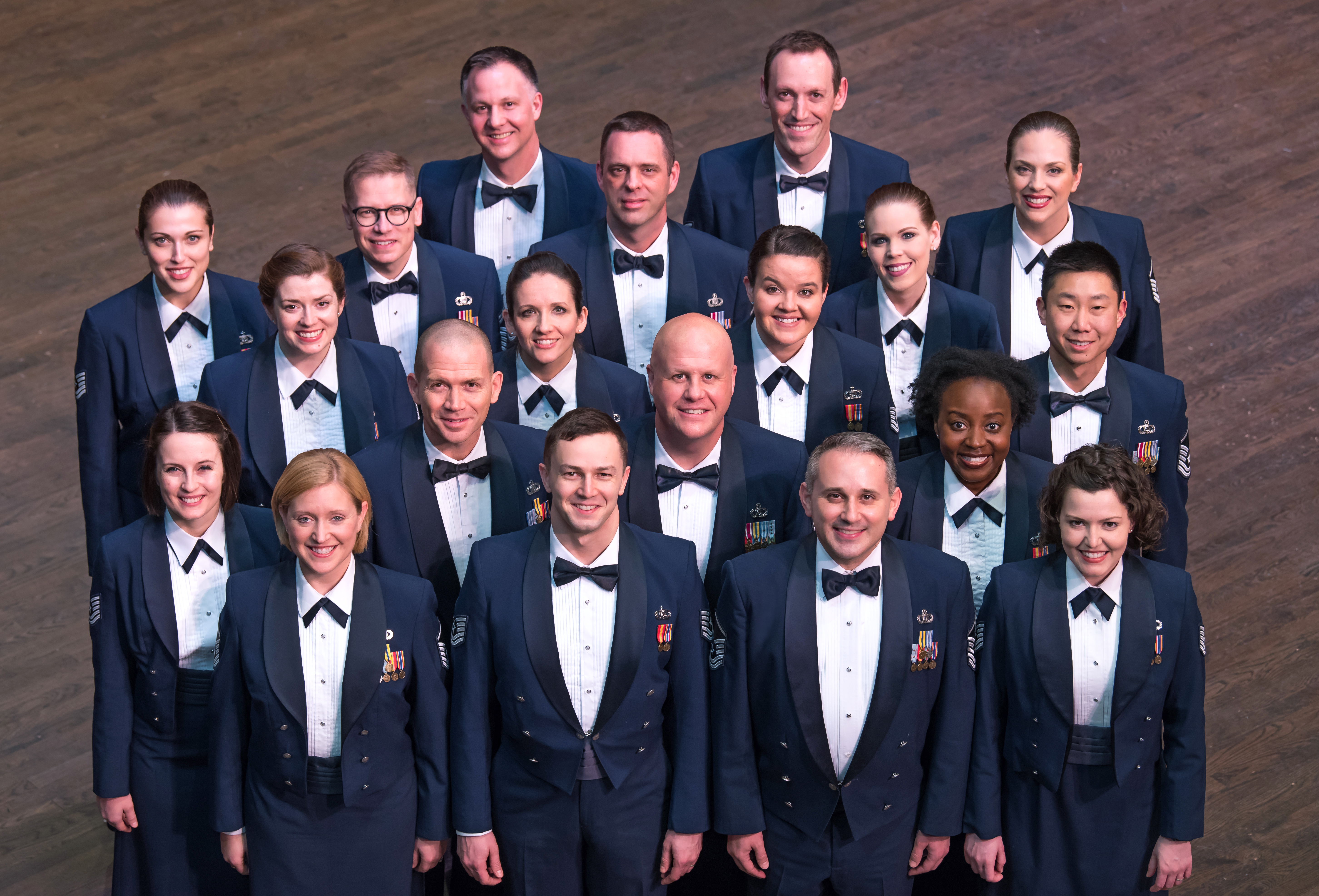 Official photo of the U.S. Air Force Singing Sergeants, by Chief Master Sgt. Kevin Burns, 2019